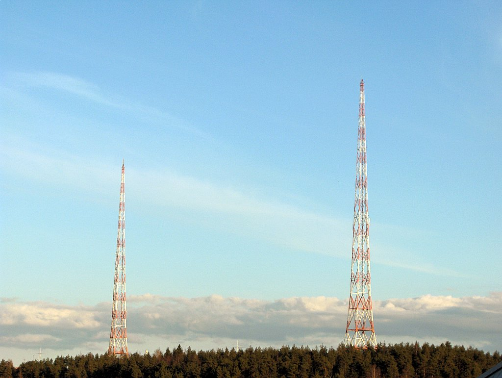 Lahti radio masts (1927) The masts were build by Hein, Lehmann and Co. (Berlin) between 24th September and 26th November, 1927, for the long wave transmissions (22nd April, 1928 - 31st March, 1993 / ).